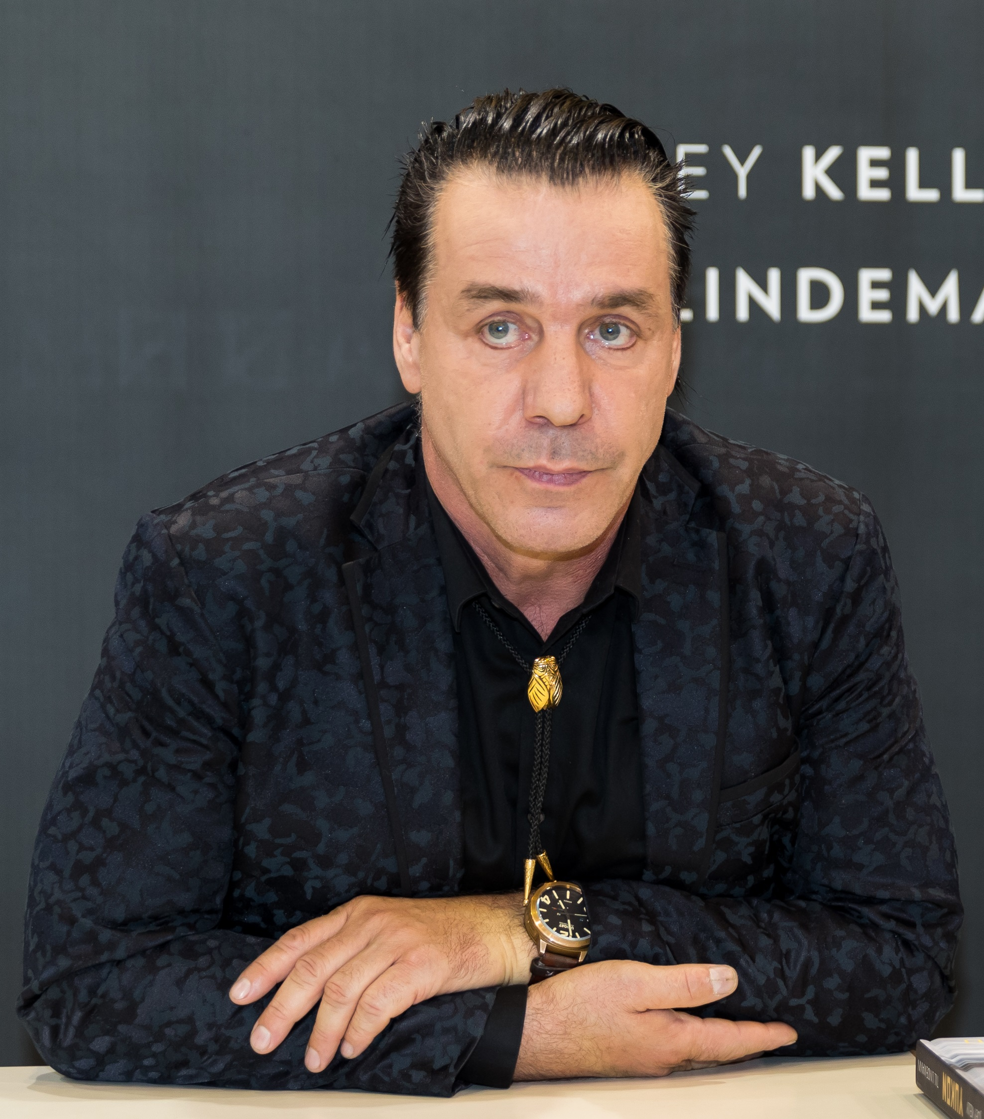 Till Lindemann during Buchmesse at Messegelände, Frankfurt, Hessen, Germany on 2017-10-14, Photo: Sven Mandel